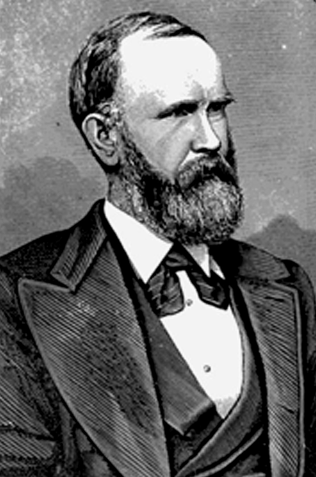 Colonel Alfred Benjamin Meacham